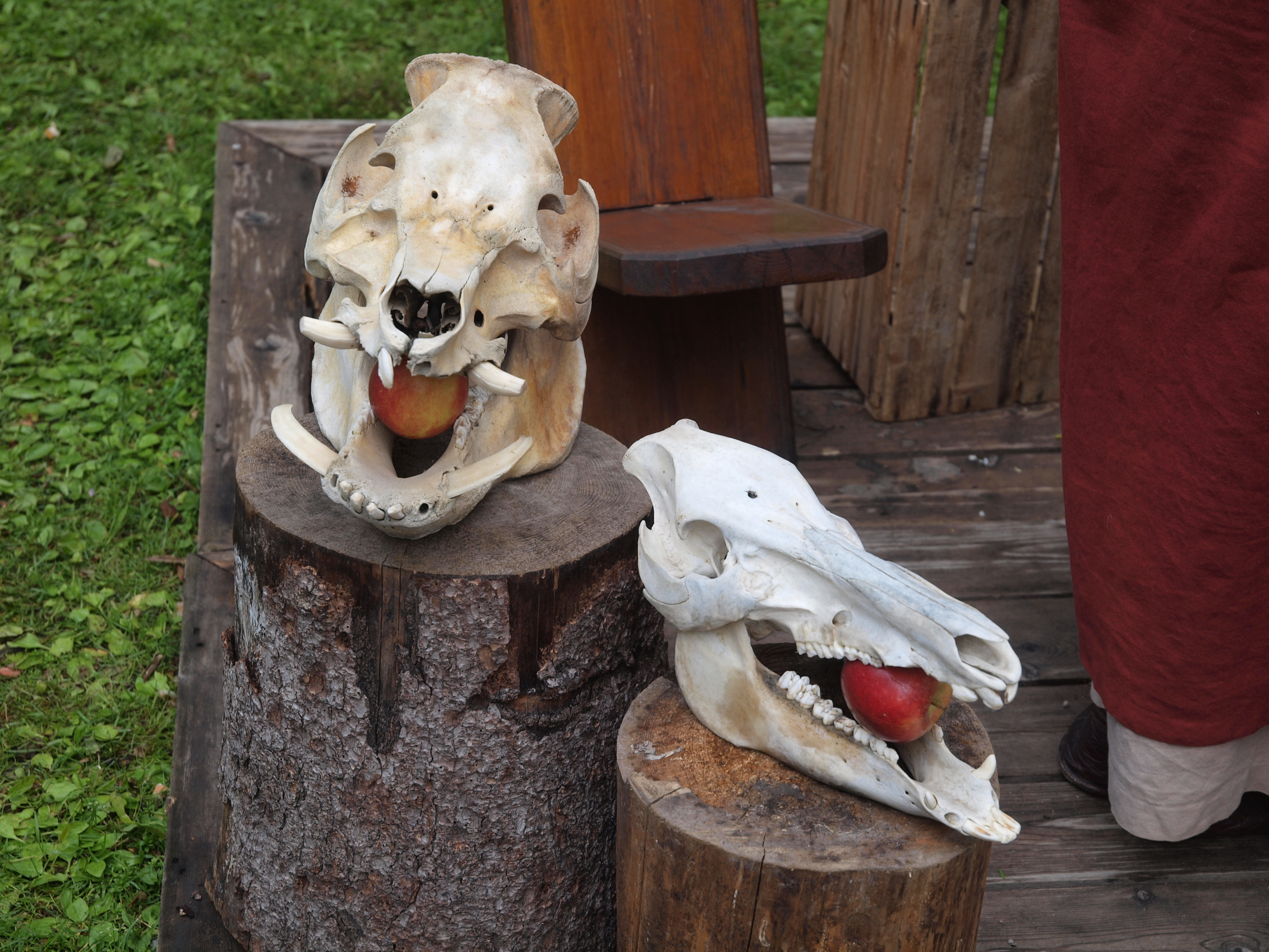 Two animal skulls, with apples placed in their mouths, on display at the Turku Medieval market 2015 in central Turku, Finland Proper (I still refuse to call it "Southwest Finland"), Finland, in June 2015.